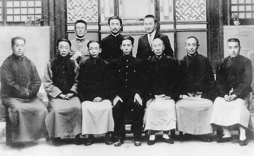 Photography of Inner Mongolian People's Revolutionary Party, at the time of its creation, in october 1925.